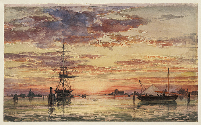 Watercolor and gouache, with gum arabic, on cream wove paper